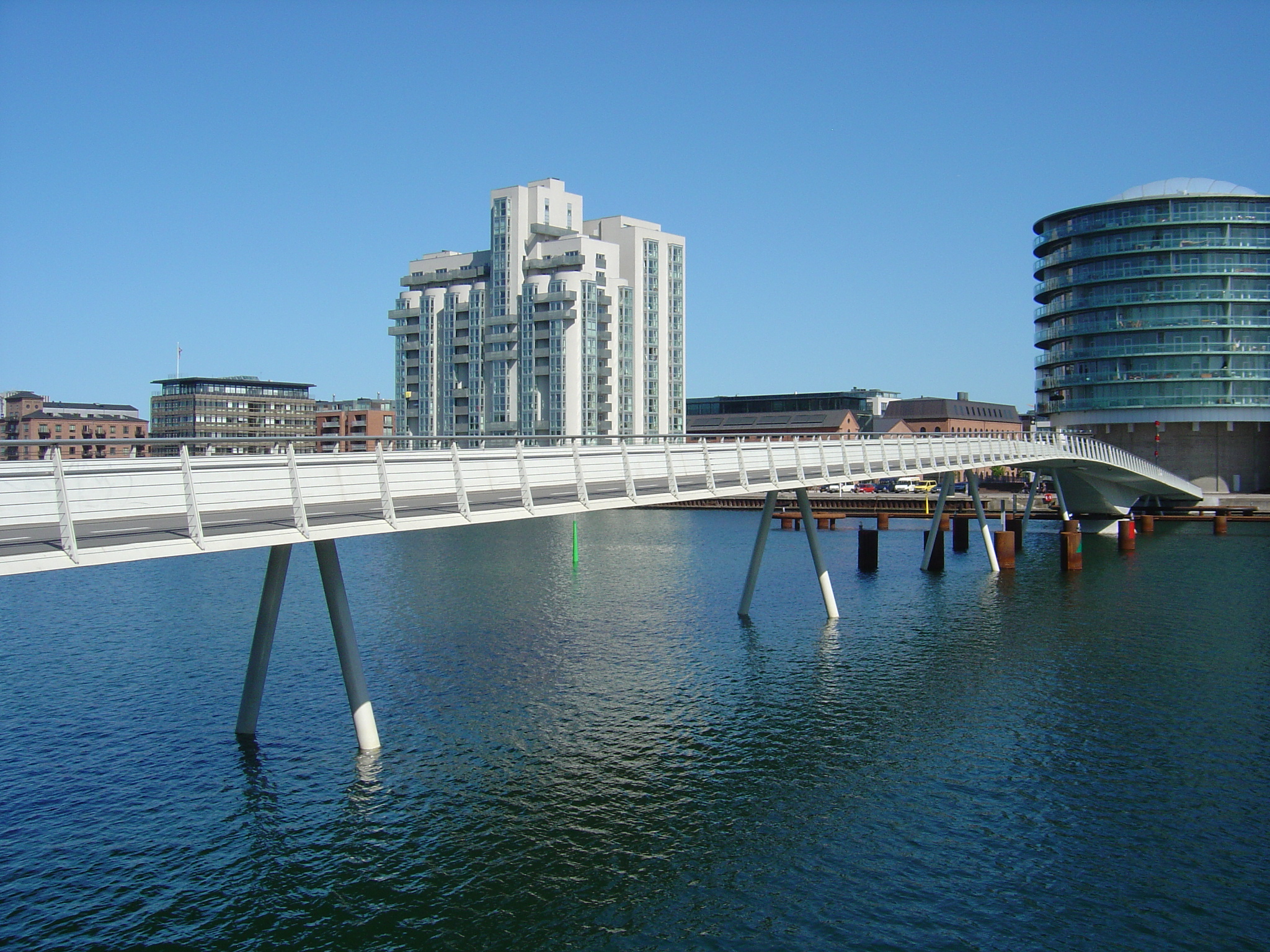 Bryggebroen - the bridge between Kalvebod Brygge (Sealand) and Islands Brygge (Amager), Copenhagen. Seen from the northwest side, on Havneholmen.